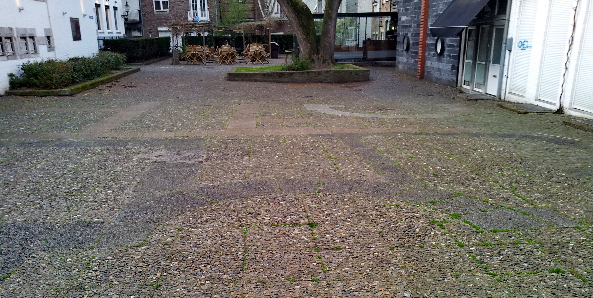 Maastricht, the Netherlands. Contours of a Roman bath house in the pavement of Op de Thermen square.